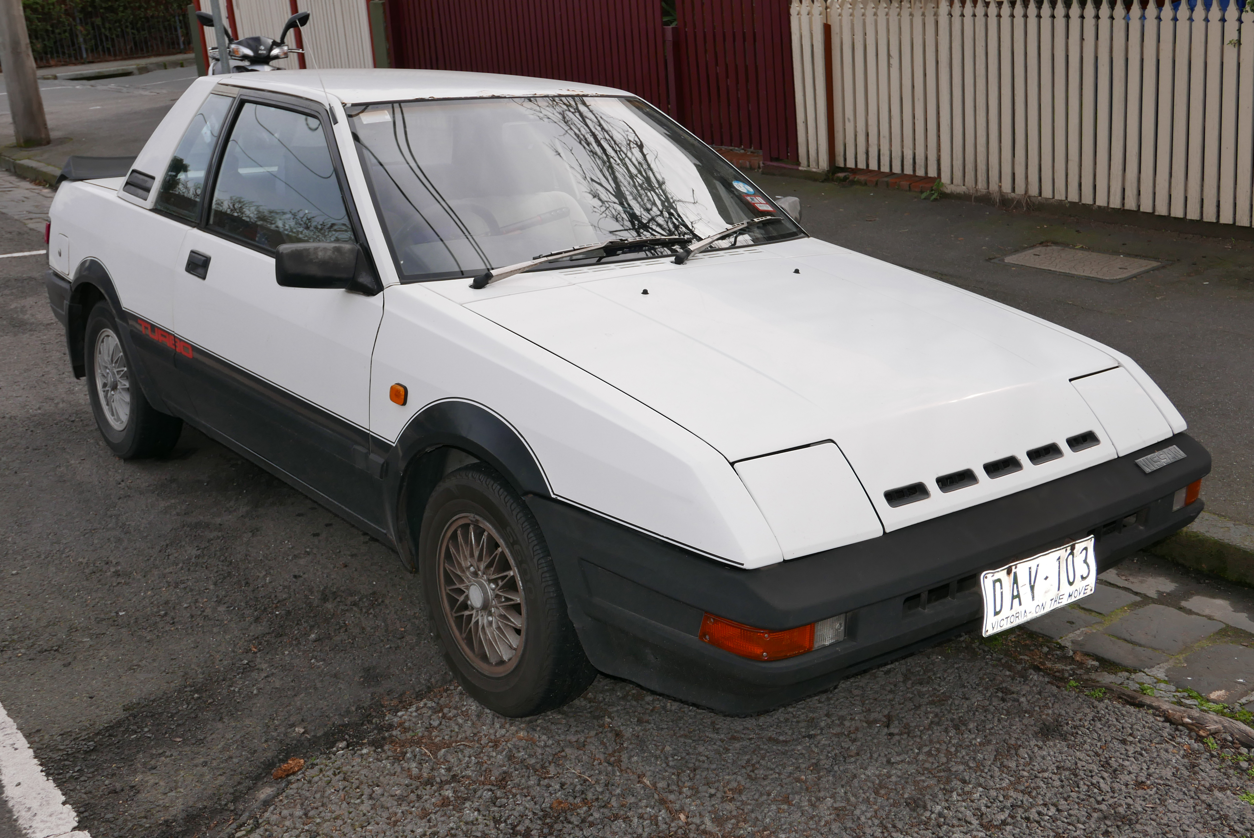 1985 Nissan Pulsar (N12) EXA Turbo coupe. Photographed in Abbotsford, Victoria, Australia. Vehicle registration enquiry results Jurisdiction Victoria Registration DAV103 Chassis code KHN12201205 Engine code E15003674B Compliance date Not available Year of manufacture 1985